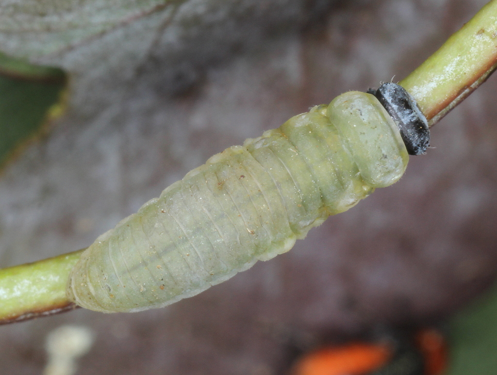 Paropsisterna m-fuscum